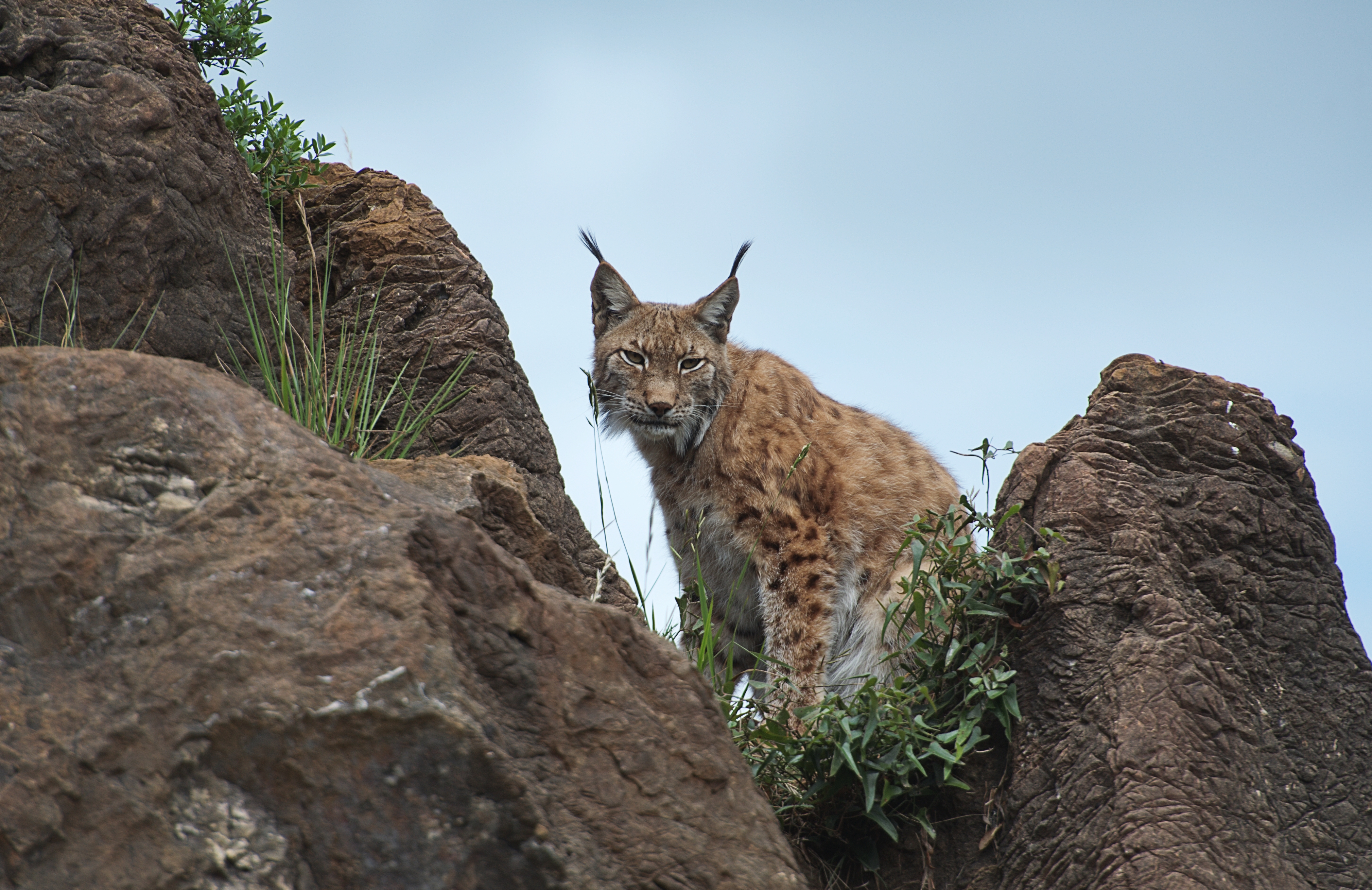 Unidentified Lynx, captive, Parque de la naturaleza de Cabárceno, Spain